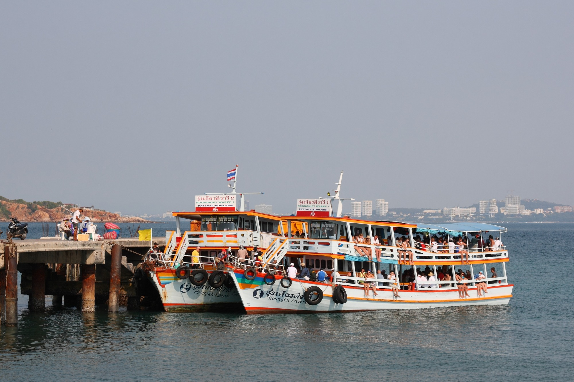 Pattaya-Koh Larn ferries